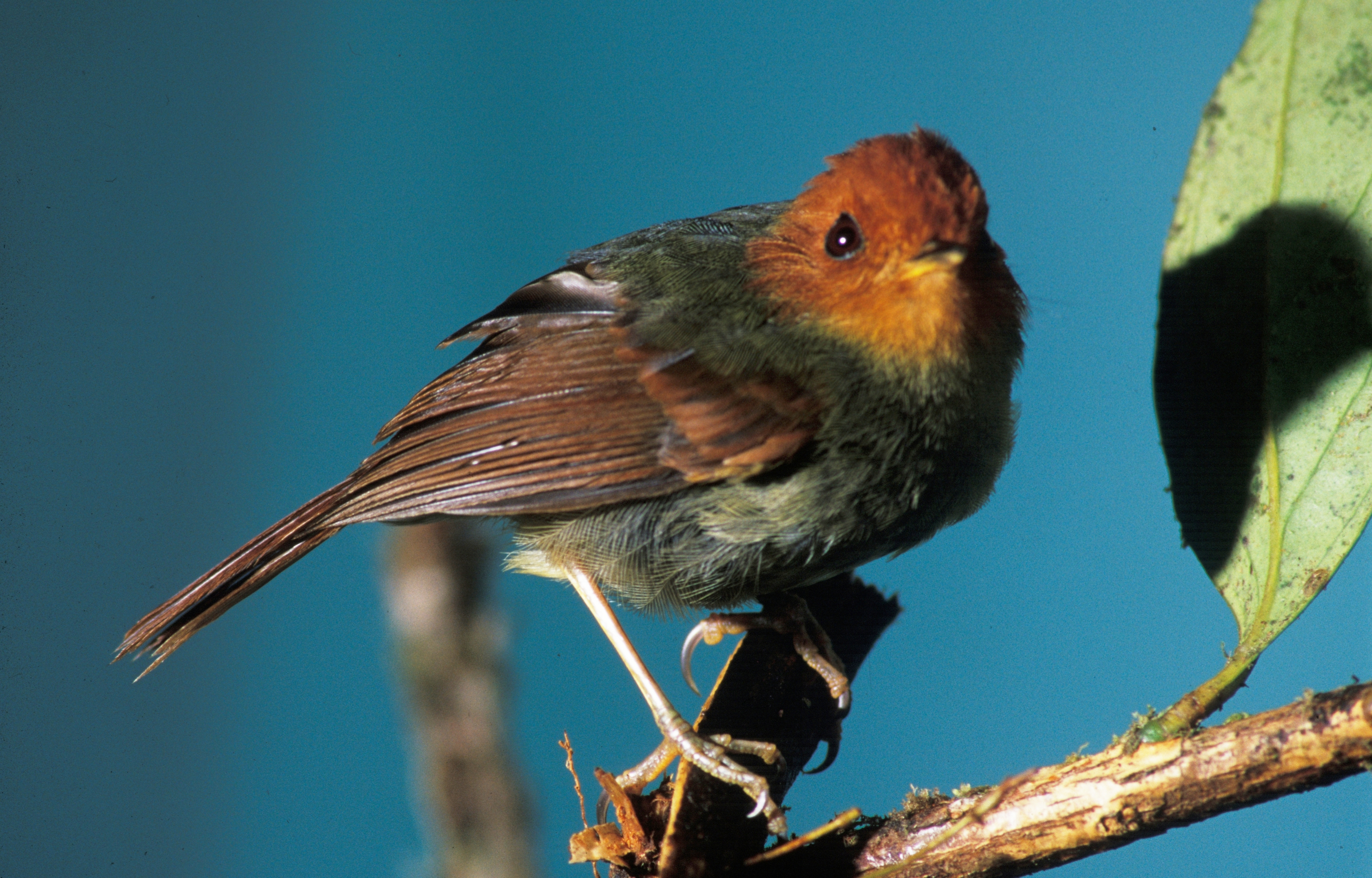 Rufous-headed Pygmy-tyrant (Pseudotriccus ruficeps) from the NBII Image Gallery. Photographed in Cordillera del Cóndor, Ecuador.